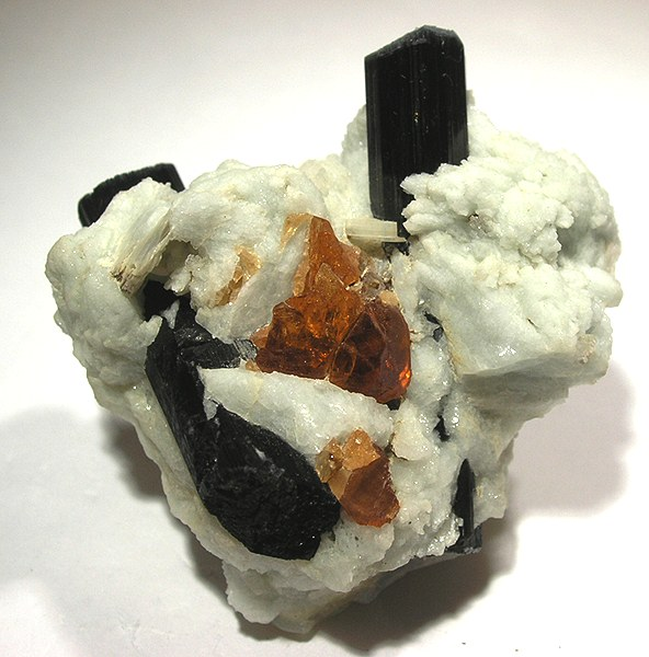 Albite, Schorl, Spessartine Locality: Little Three Mine (Little 3), Ramona District, San Diego County, California, USA (Locality at ) Size: miniature, 5.7 x 5 x 2.5 cm Schorl with Spessartine on Albite A CLASSIC San Diego combo specimen, most likely dating to the Louis Spalding Sr. era of mining when the best all came out of this small mine in remote San Diego County. This is a really showy combination specimen for the price, as it features a 1.2 cm partially etched crystal which is not only very colorful but also still retains some of the original crystal faces (though not all). Nearly all garnets of any size recovered from this mine show etching to some degree , asthe solutions started to resorb them sometime after formation. Here, at least, the crystal has color and visual appeal especially as it sits nicely in contrasting white albite between two schorl rabbit-ears. Large, intact spessartines of this size are VERY scarce on the market and even in the major collections in San Diego where they are considered one of the top collectibles from the area. This one came through noted California dealer Al Ordway, who always has great San Diego stuff from the old days!